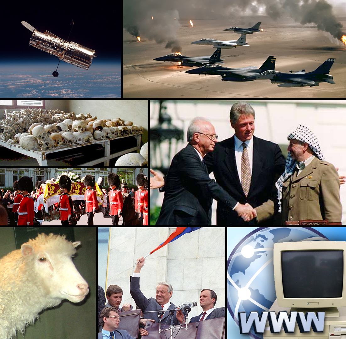 A montage of notable events in the 1990s.